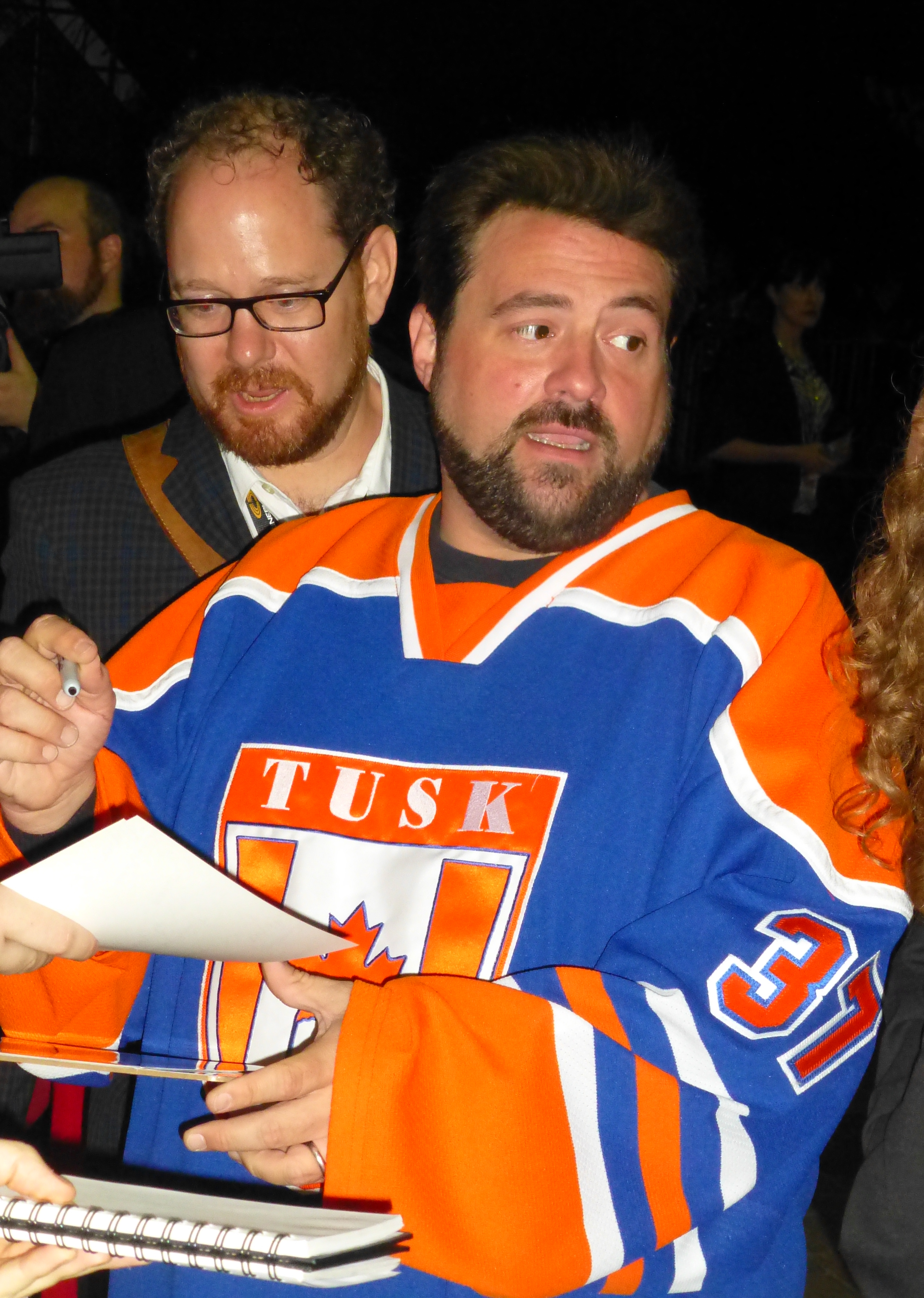 Kevin Smith at the premiere of Tusk, 2014 Toronto Film Festival